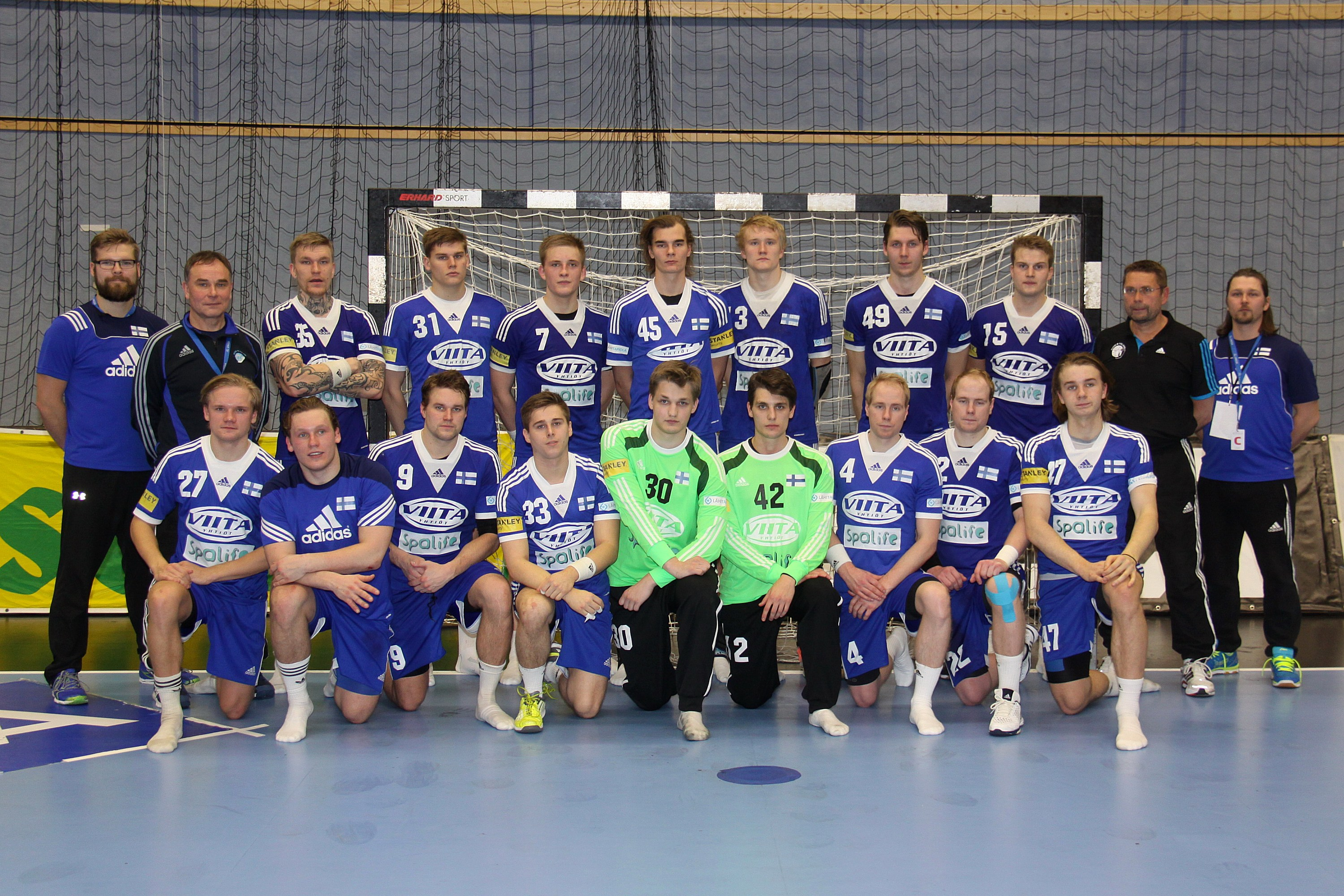 Qualification for the 2017 World Men's Handball Championship Austria national handball team vs. Finland national handball team 32-20 – The photo shows the Finnland national handball team.